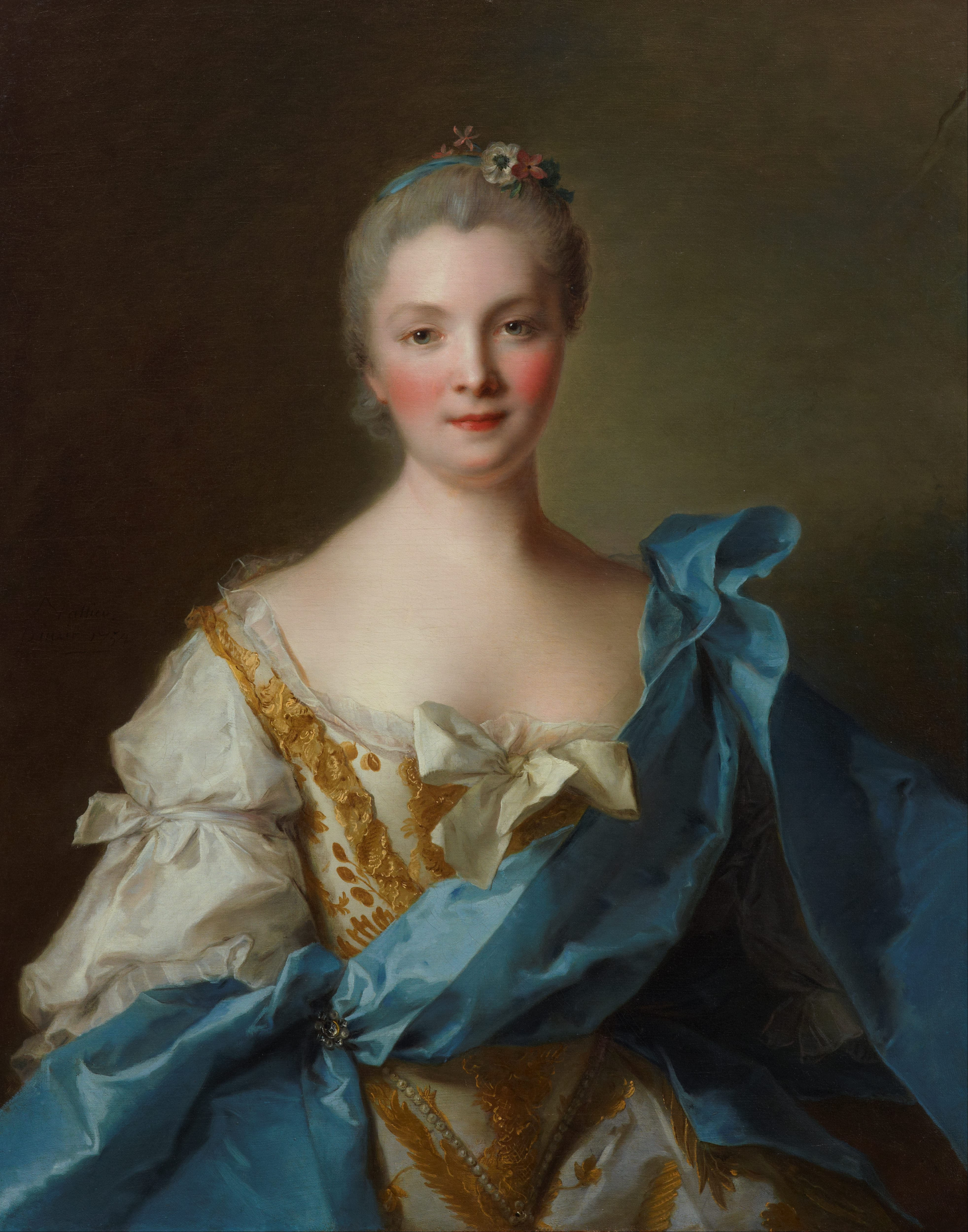 Portrait of Madame de La Porte, half length, wearing a white satin dress with gold embroidery and a blue cloak, with flowers in her hair.